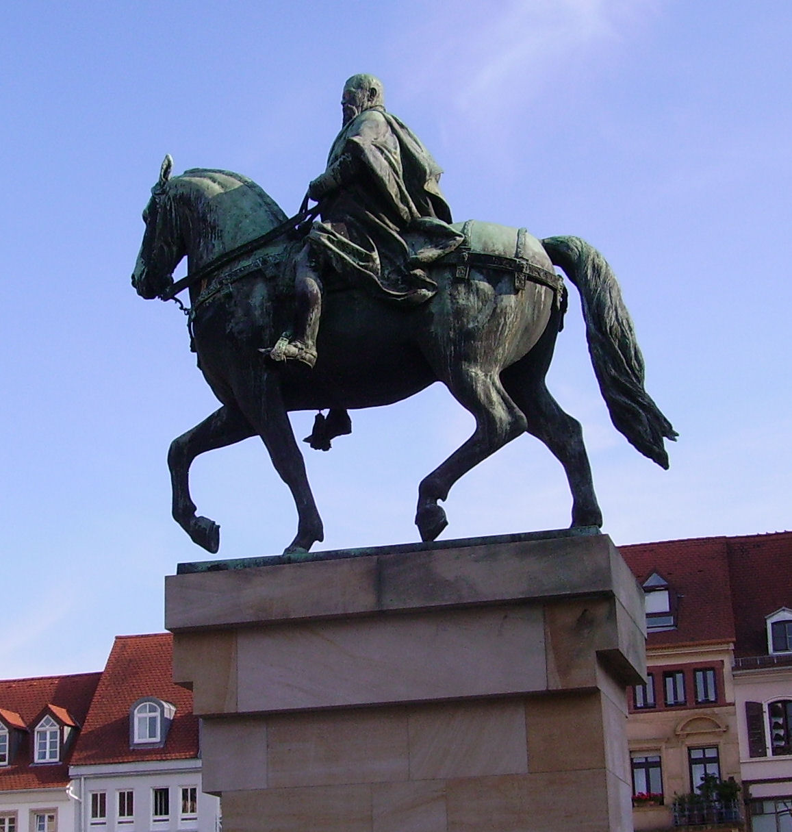 view of Landau (Pfalz), Germany